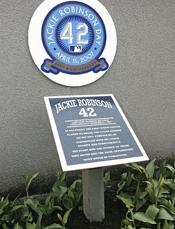 I, the Silent Wind of Doom made this picture on MSPaint to serve as a retired number on the New York Yankees page